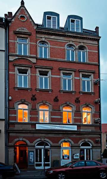 Kunsthaus Erfurt (House of the Arts Erfurt)